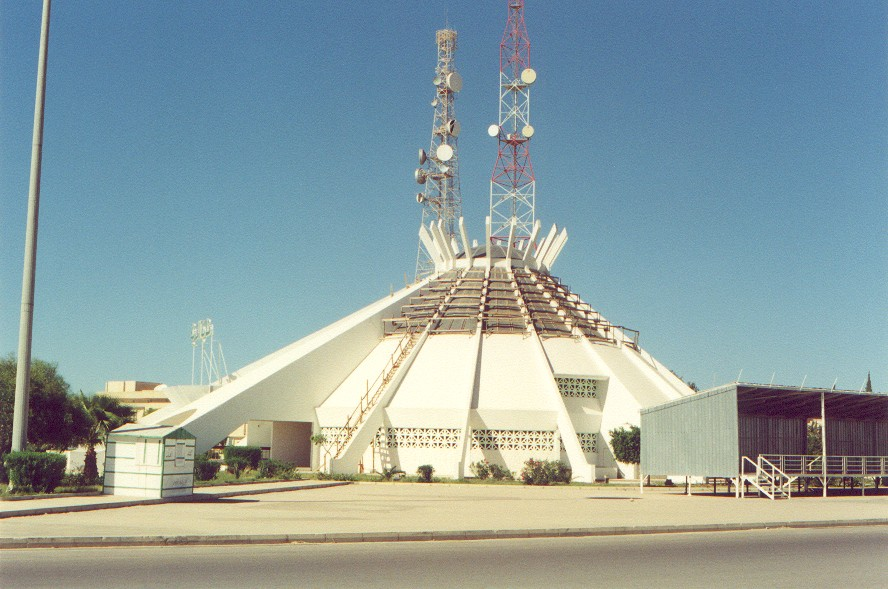 Assembly building in Sirte. Source: self made